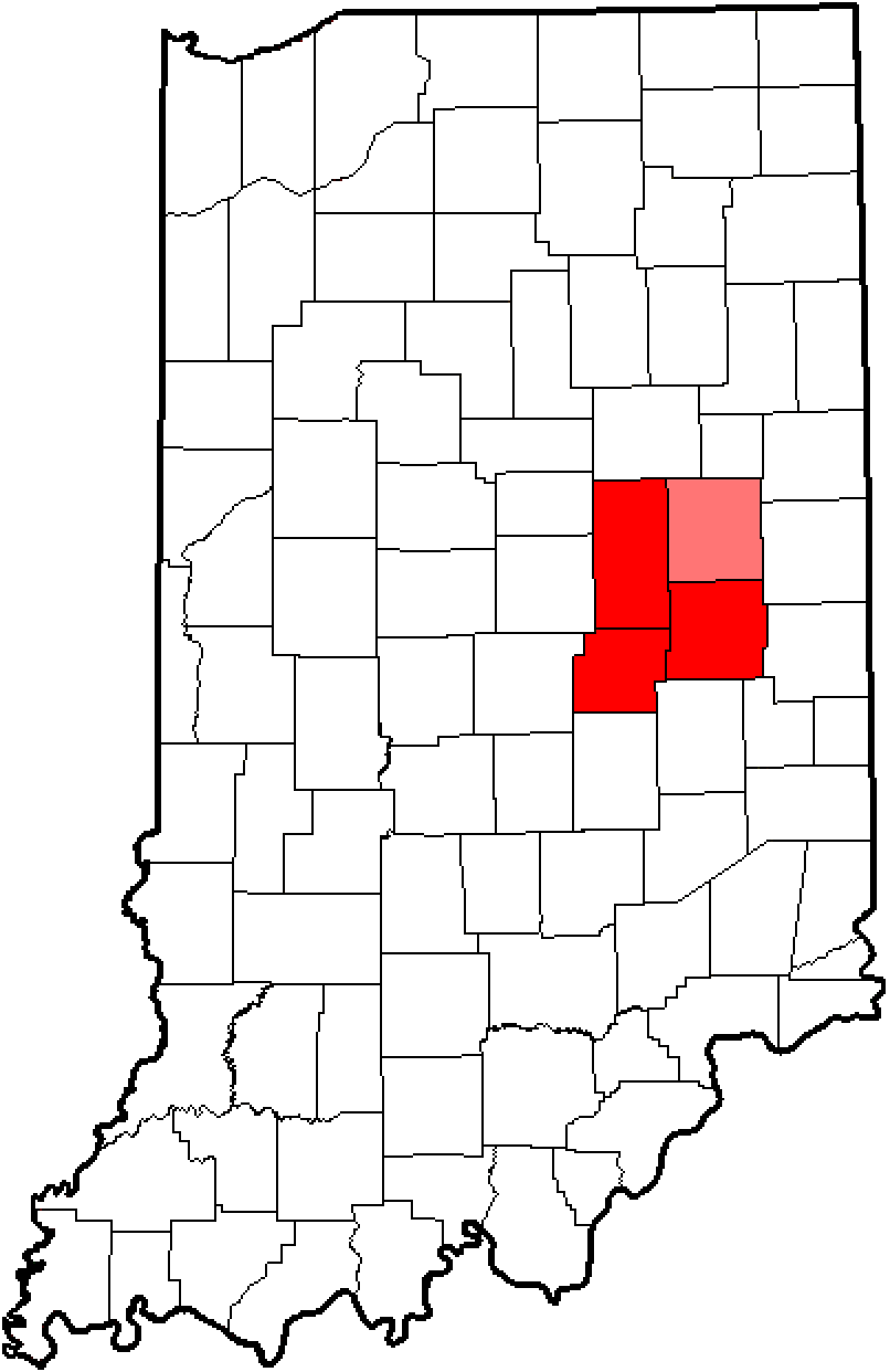 Location of the White River Conference in Indiana.